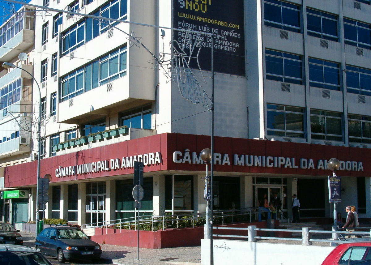 Amadora_-_Camara_Municipal